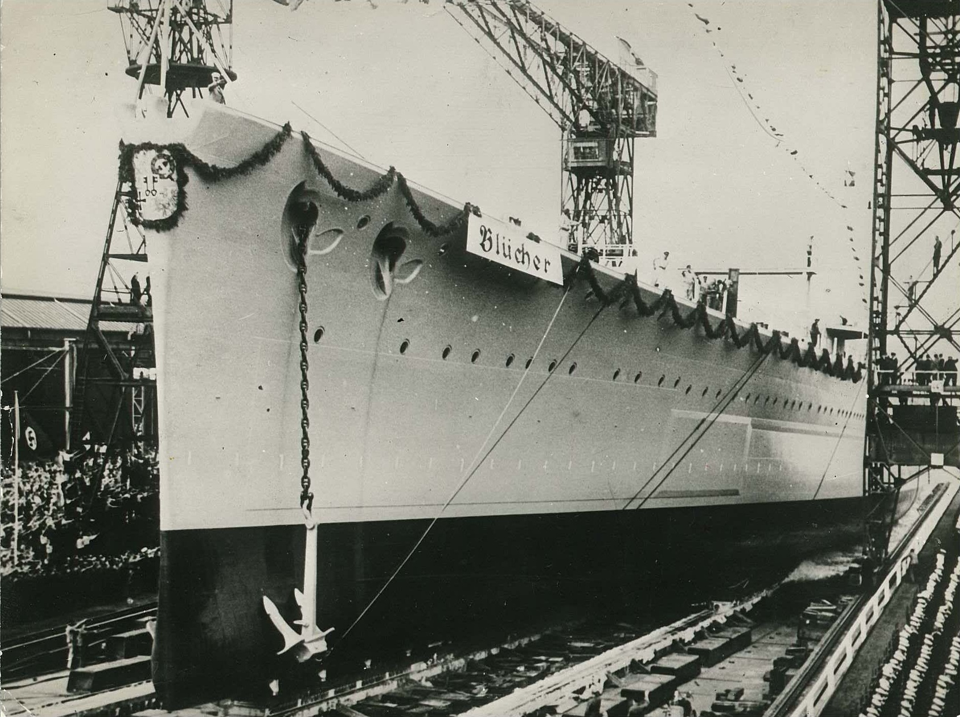 Kildeinformasjon: NTBs krigsarkiv, Digitaliserte dokumenter (RA/PA-1209/Ud/L0073/0004), 0-, oppb: Riksarkivet. Merknader: Blücher senket ved Oscarsborg. Permanent sidelenke: Permanent bildelenke